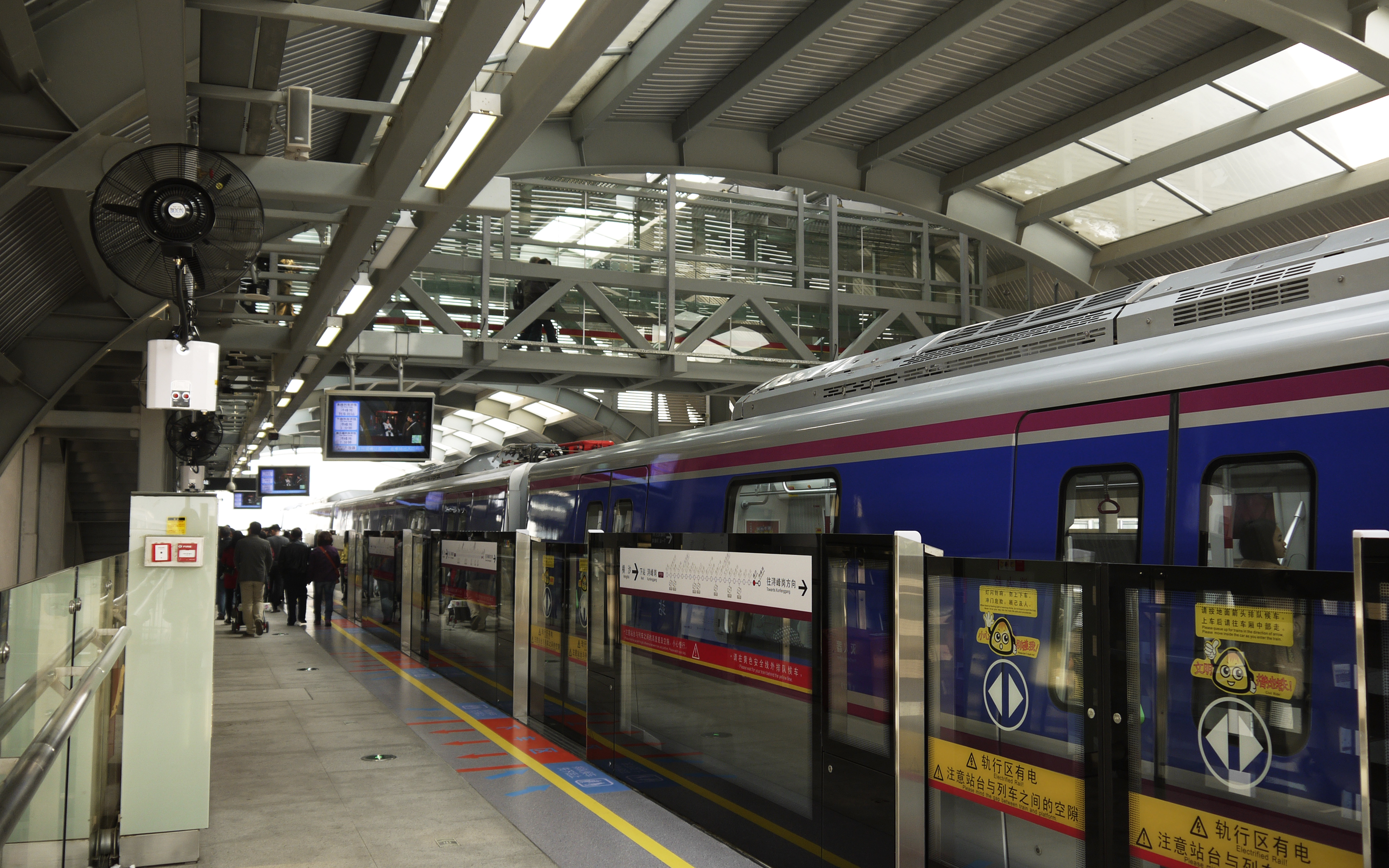 HENG SHA Station